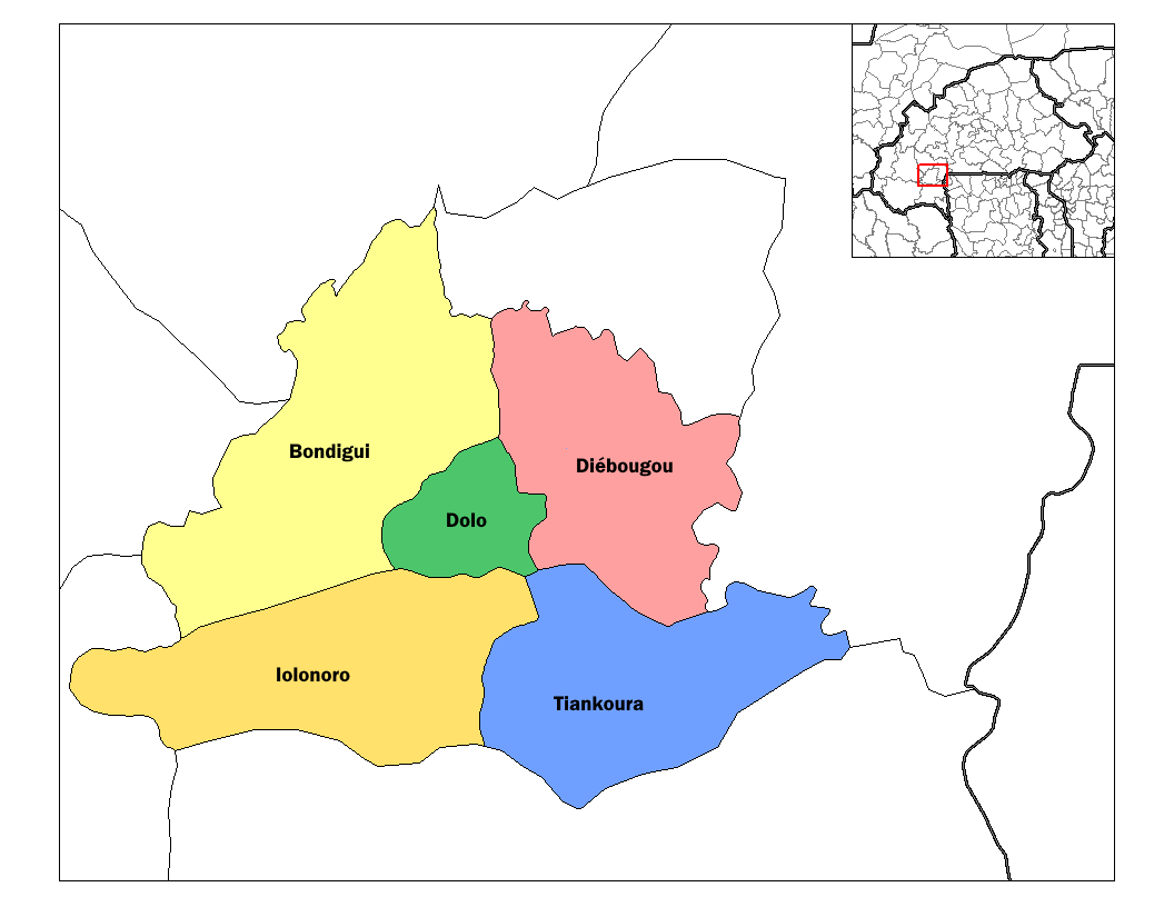 This map has been uploaded by Osiris fancy from to enable the Wikimedia Atlas of the World. Original uploader to was Rarelibra. Osiris fancy is not the creator of this map. Licensing information is below. Map of the departments of Bougouriba province in Burkina Faso. Created by Rarelibra 03:12, 30 September 2006 (UTC) for public domain use, using MapInfo Professional v8.5 and various mapping resources.